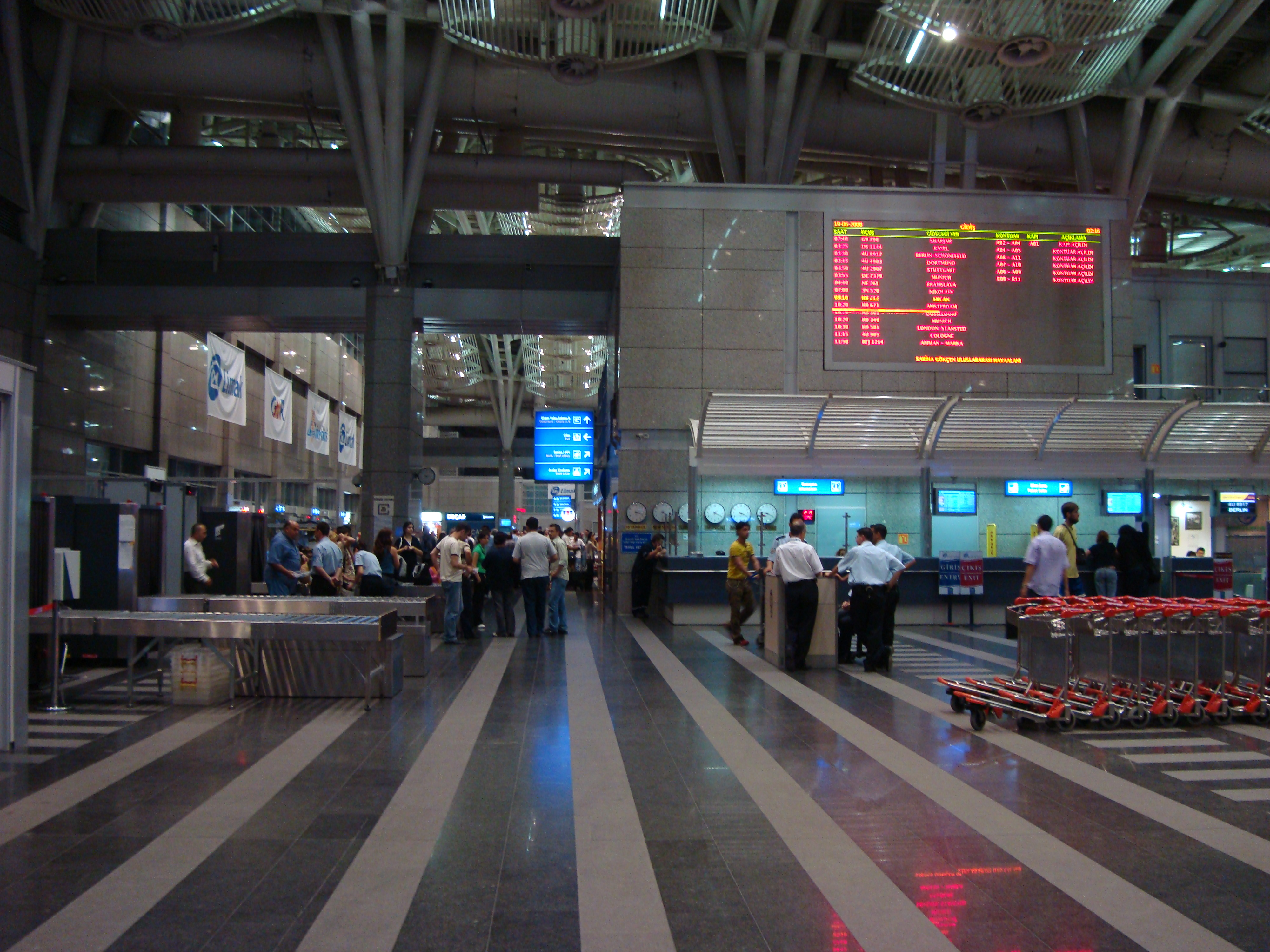 Departure lounge in Sabiha Gökçen International Airport, Istanbul, Turkey